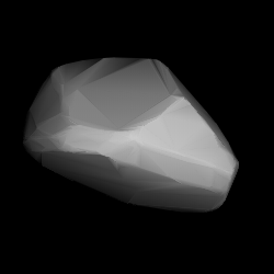 3D convex shape model of 3544 Borodino, computed using light curve inversion techniques. J. Hanuš, J. Ďurech, M. Brož, B. D. Warner (June 2011). "A study of asteroid pole-latitude distribution based on an extended set of shape models derived by the lightcurve inversion method". Astronomy and Astrophysics 530: A134. ISSN 0004-6361. arXiv